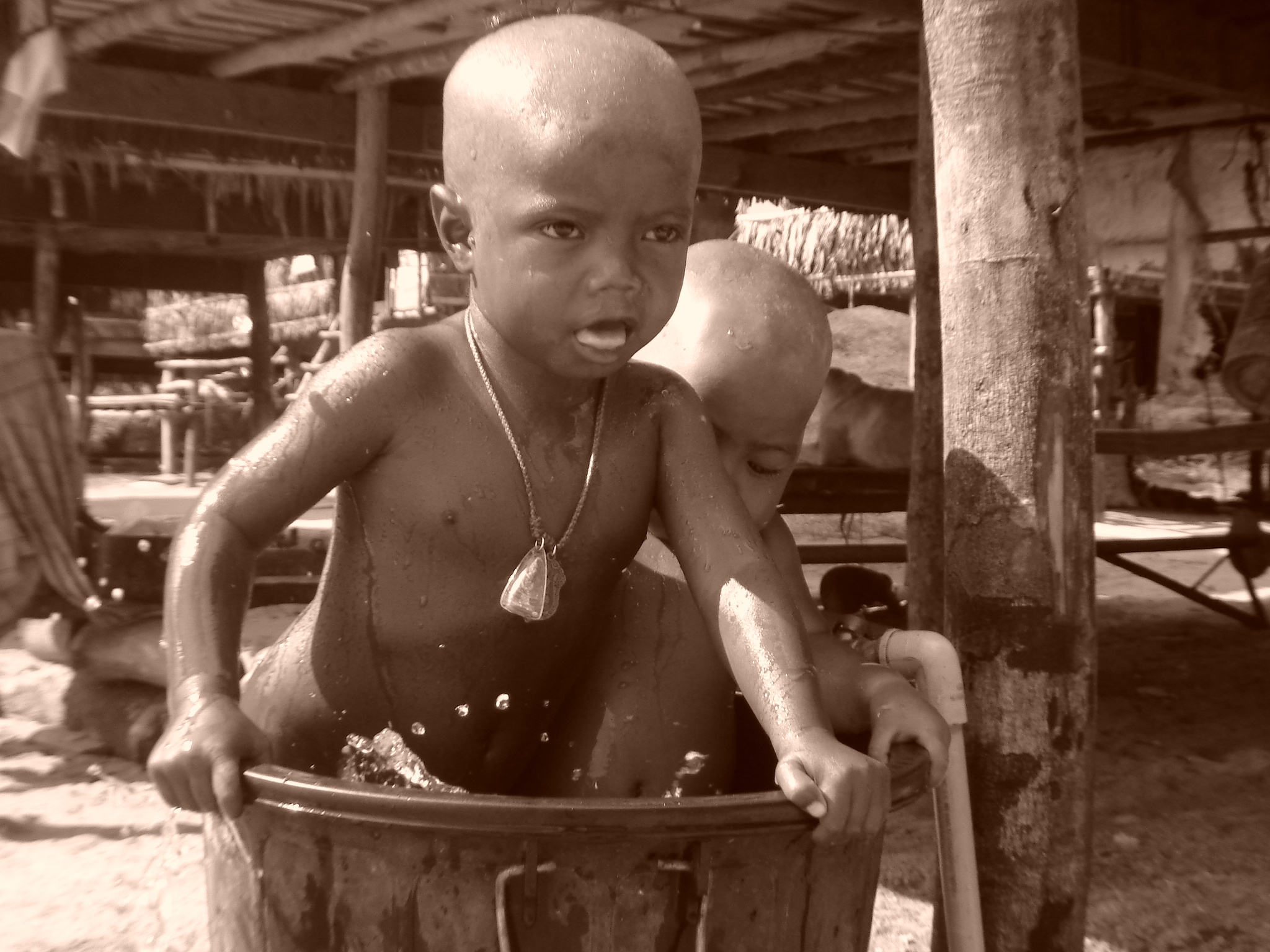 Moken, an ethnic group, in Surin Island, Thailand. Photographer: Ronnakorn Potisuwan